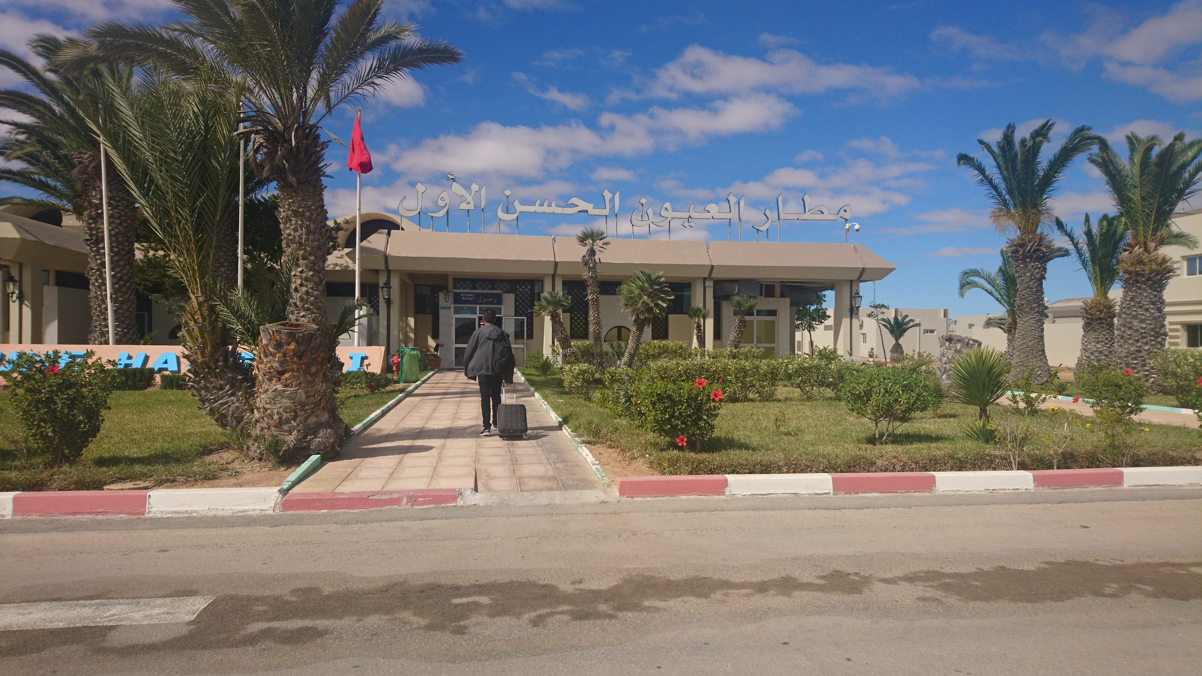 Hassan 1 Airport in El Ayun